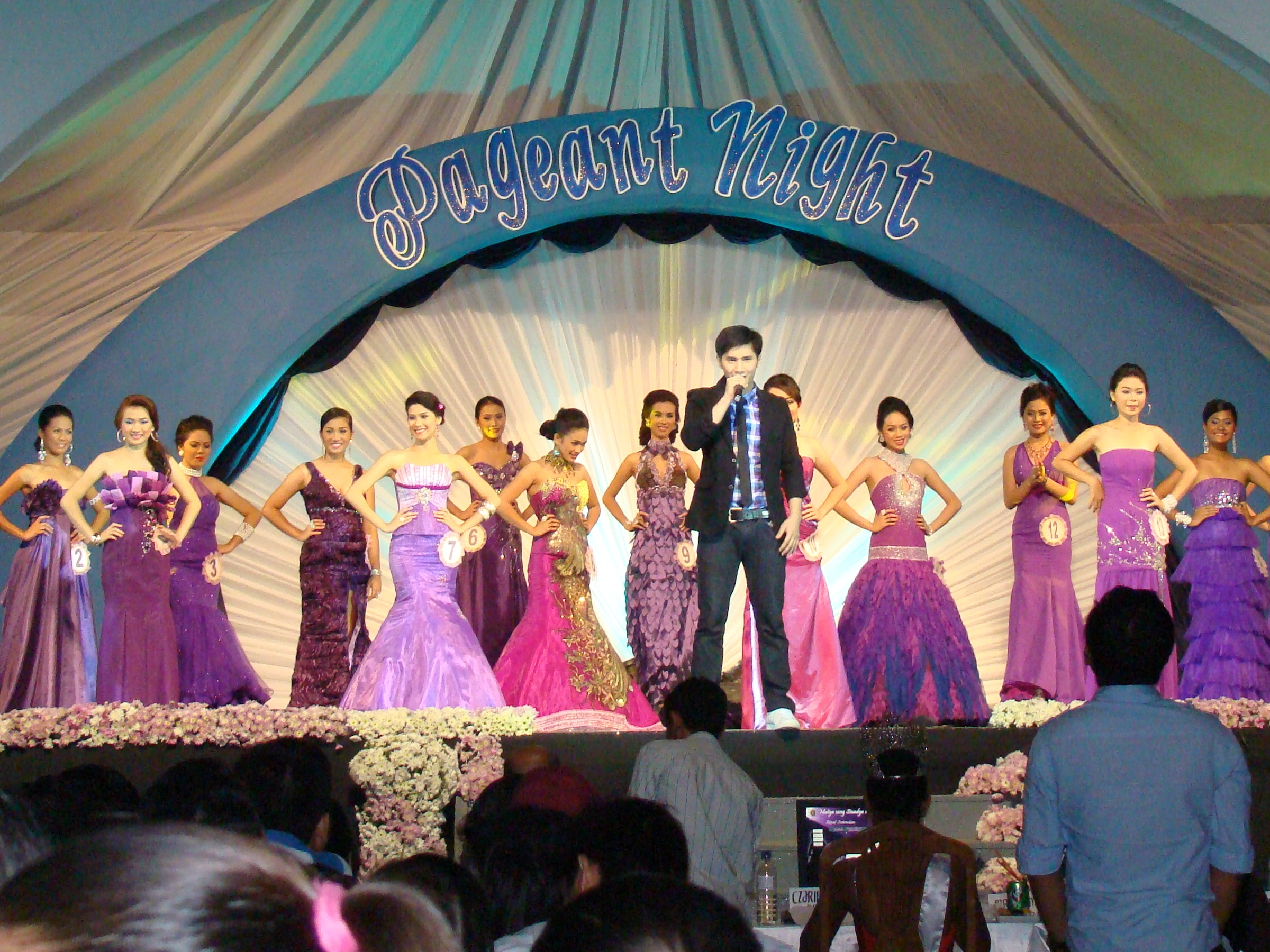 Sinadya sa Halaran Beauty Pageant - Roxas City, Capiz, Philippines - 05 DEC 2010